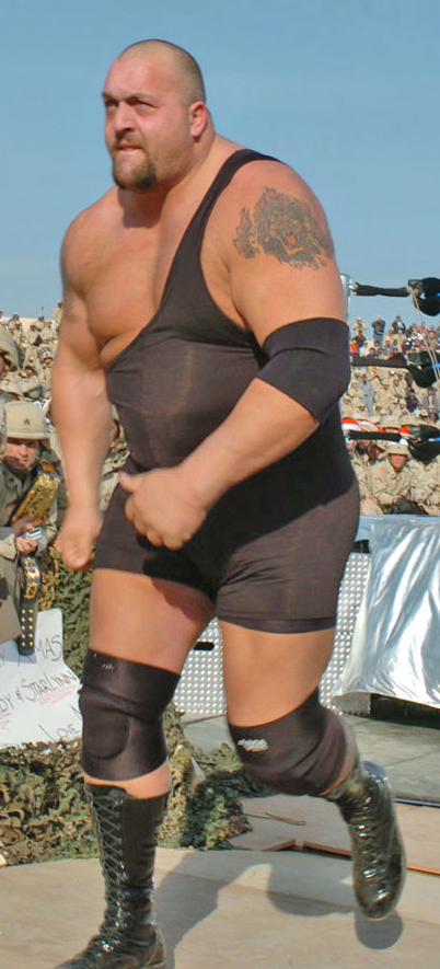 World Wrestling Entertainment (WWE) Smackdown visits the Soldiers of 1st Infantry Division in Iraq. WWE visited several Forward Operating Bases during their three day visit. They ended with a Tribute to the Troops show in Tikrit, Iraq.